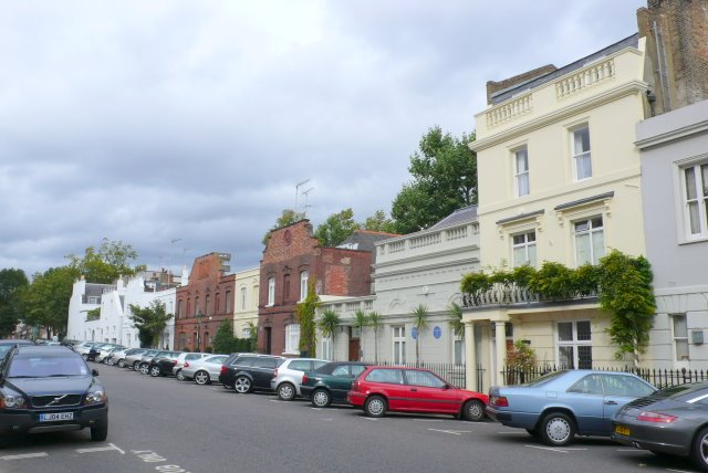 Glebe Place Chelsea Chelsea was originally a centre for artists in the 19thC and several had studios such as those shown here along the east side of Glebe Place. The sculptor Giovanni Fontana was one of the first to set up a studio here in 1865. Many of the studios are now expensive houses. In 2008 a four bed house in this street cost £3,750 PER WEEK to rent.